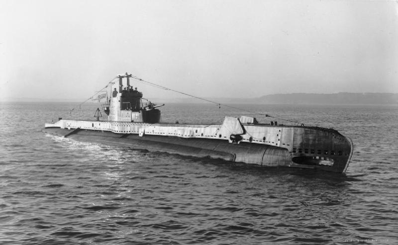 British S class submarine HMS SPUR underway. She was sdold to Portugal in 1948 and renamed Narval.